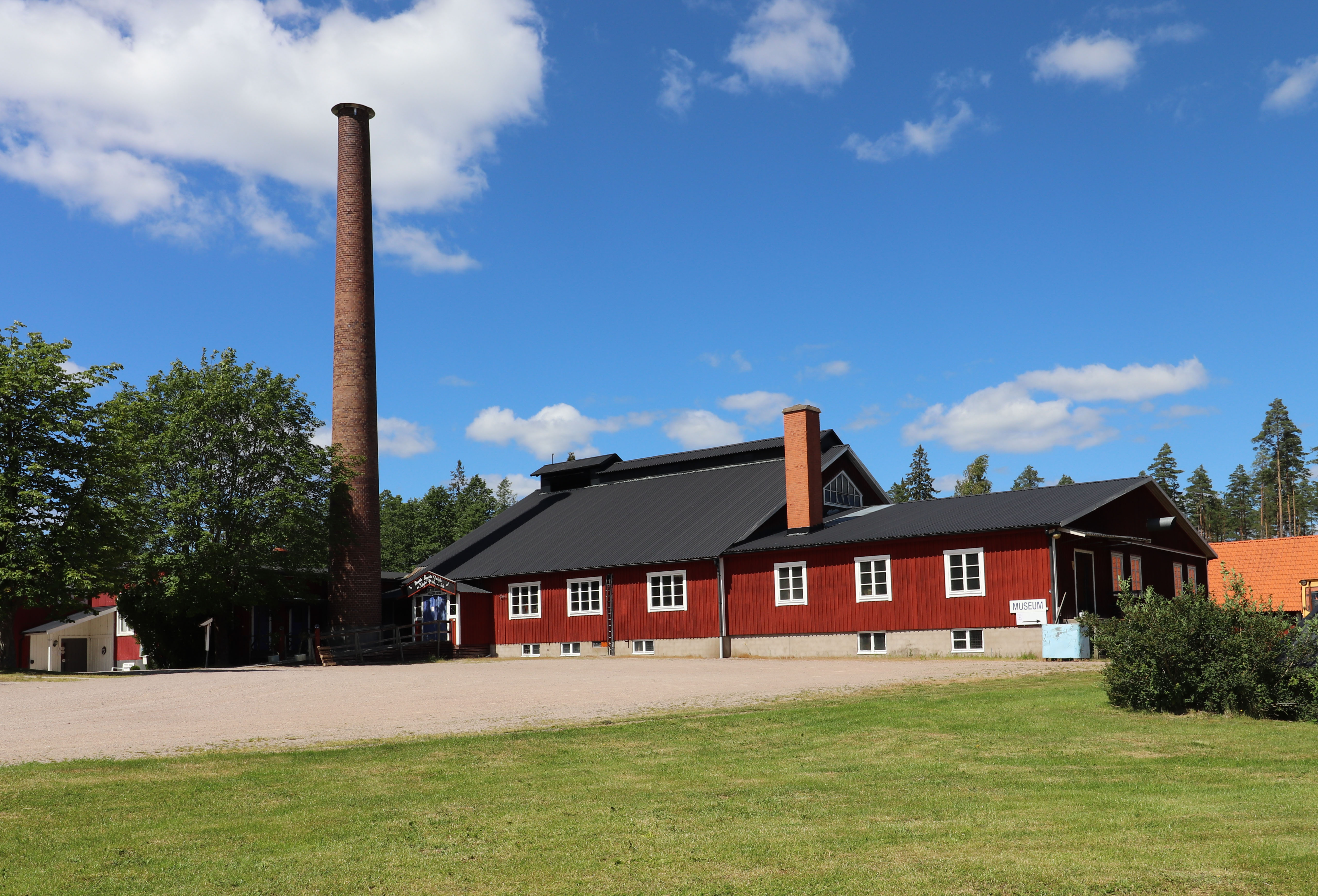 Bergdala glassworks